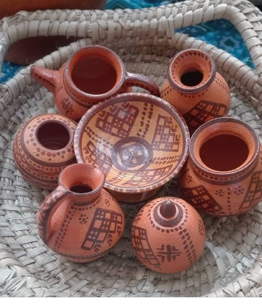 سفال کلپورگان